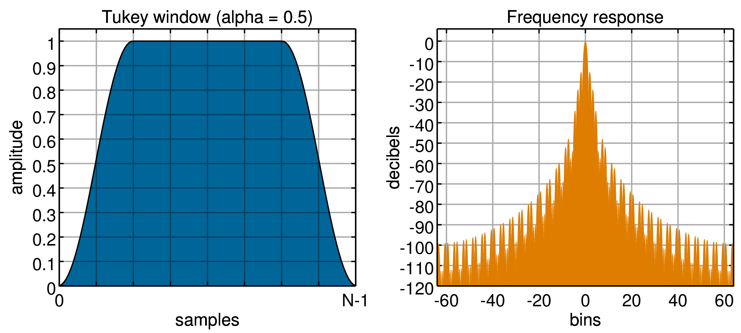 Tukey window and frequency response for alpha = 0.5